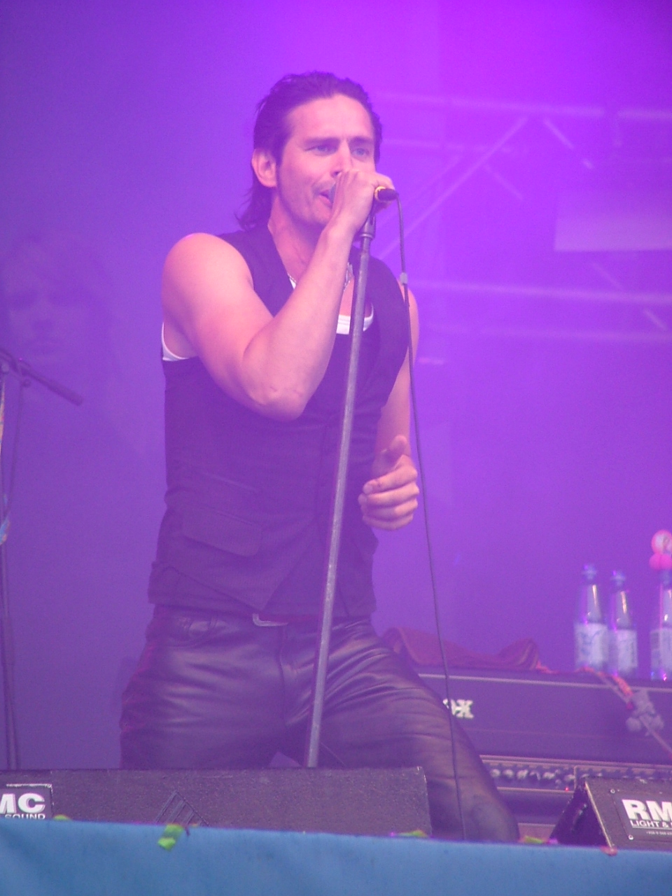 Finnish folk rock band Lauri Tähkä & Elonkerjuu live